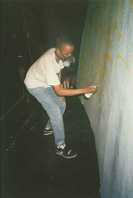 Photo of Mode 2, graffitiartist, painting on stage in Stockholm 1989